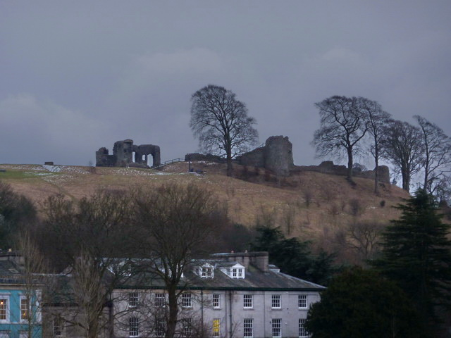 Kendal Castle From Stramongate Bridge